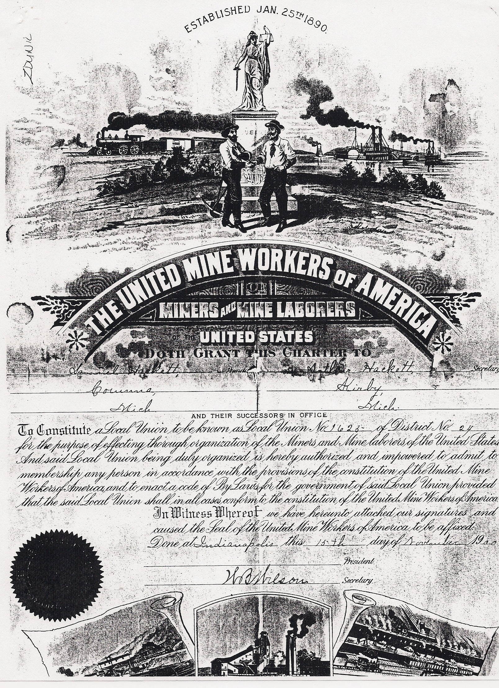 Corunna Coal Company 1890 Union Contract